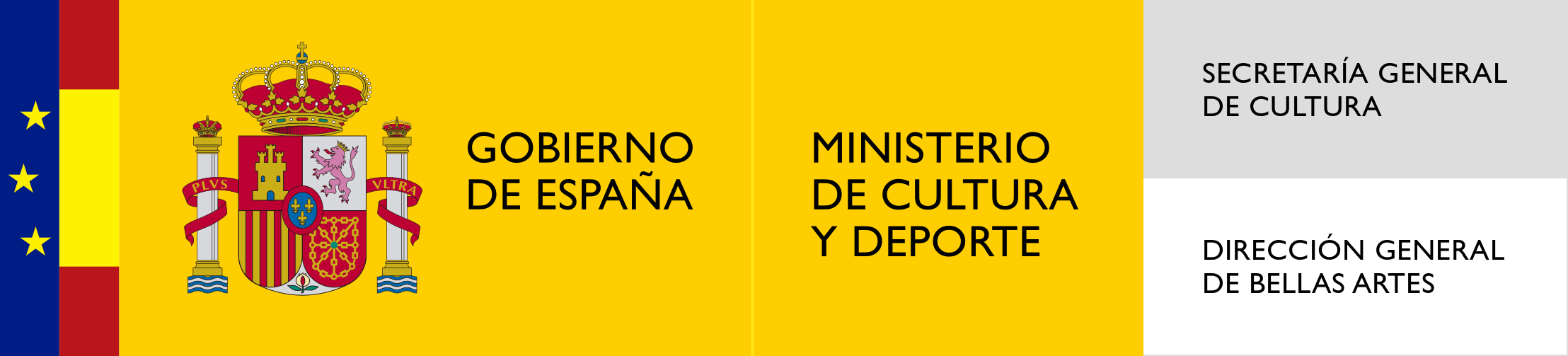 Logo of the General Direction of Fine Arts of Spain